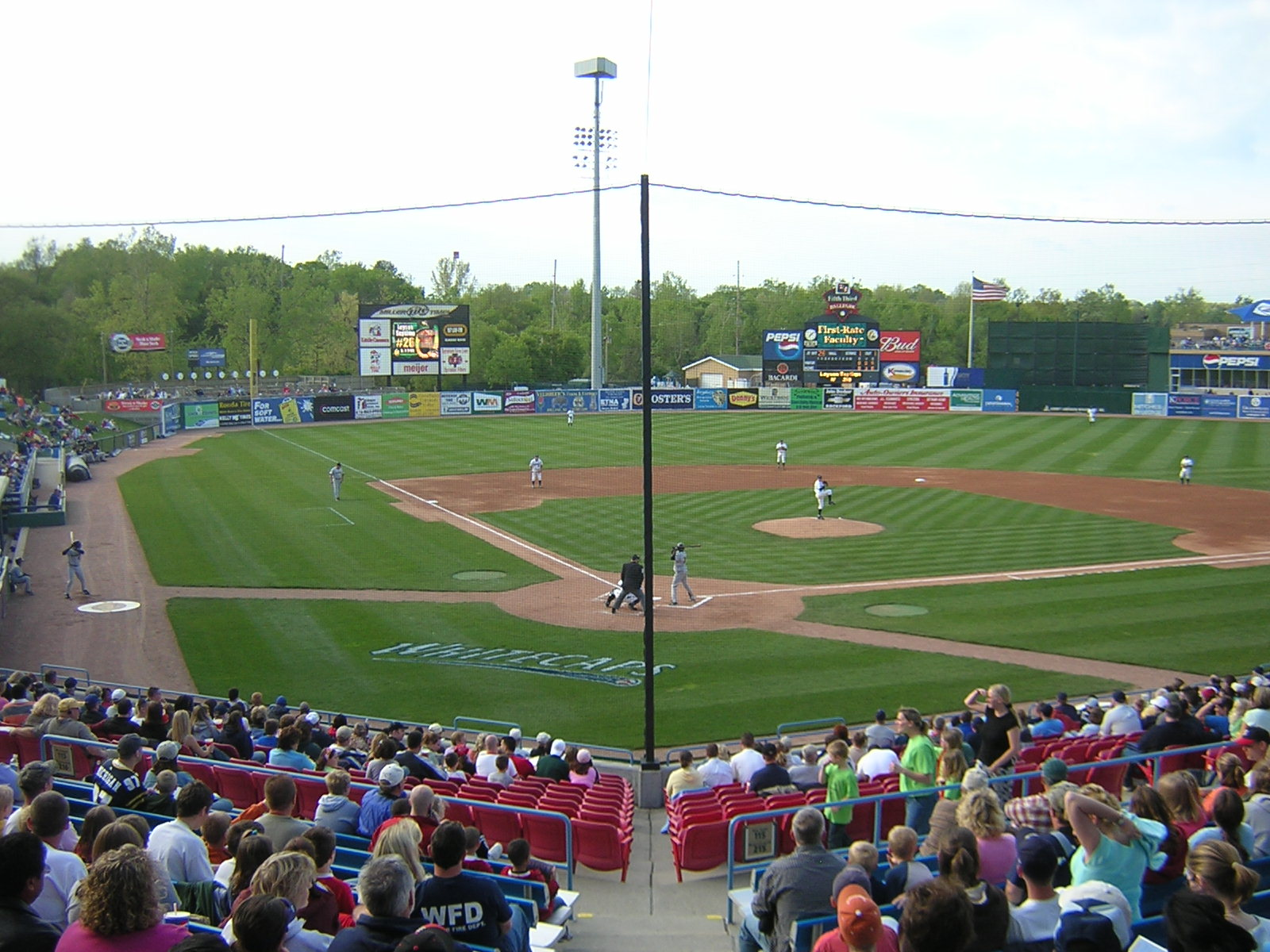 Fifth Third Ballpark in Comstock Park, home field of the West Michigan Whitecaps baseball team, metro Grand Rapids area.